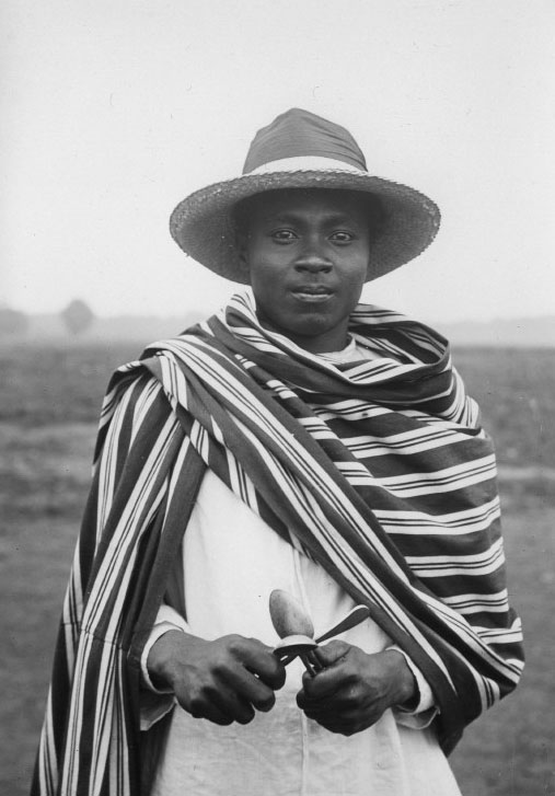 Sakalava musician (Madagascar)